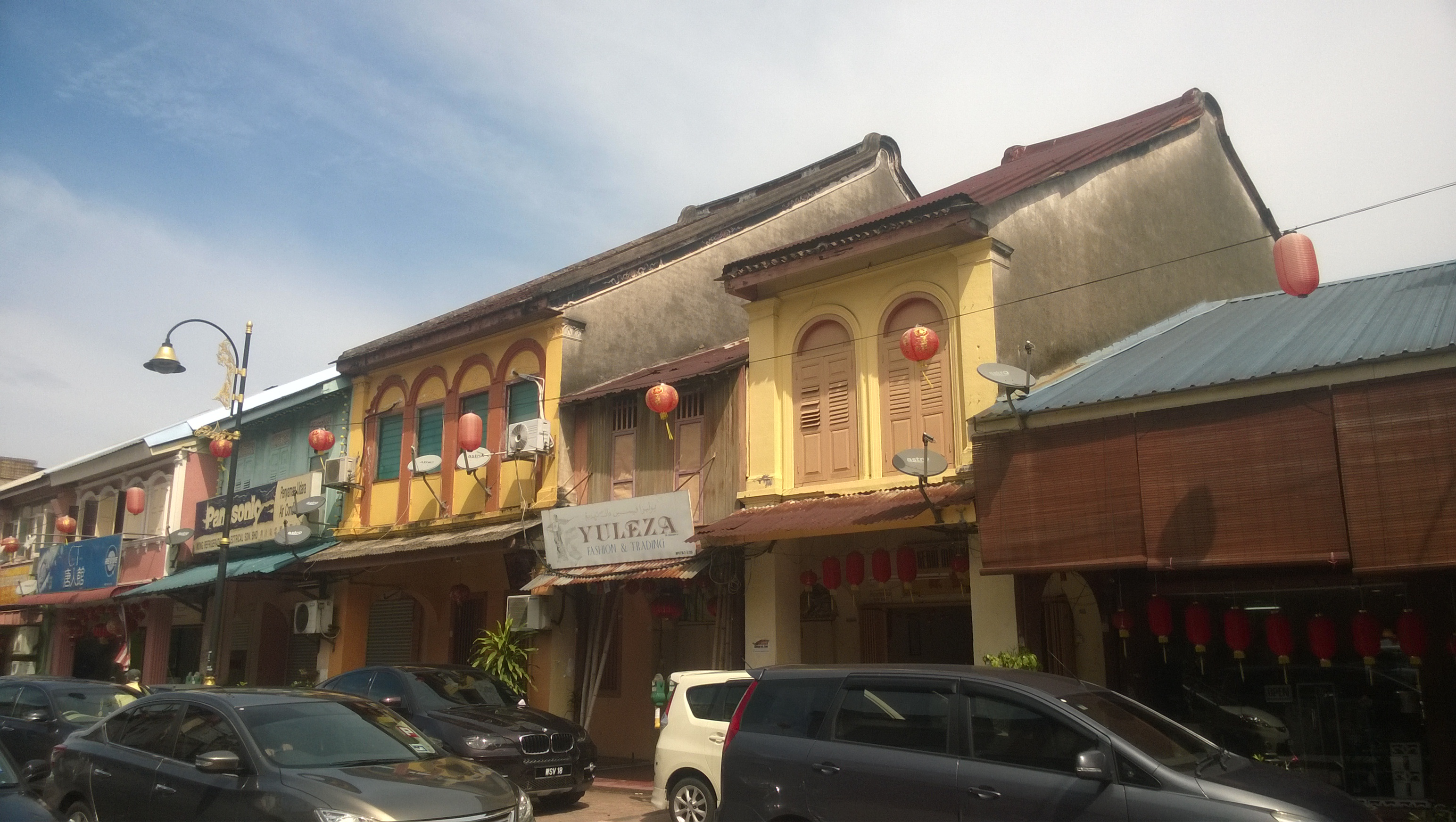 A view of Chinatown, Kuala Terengganu, Terengganu, Malaysia.